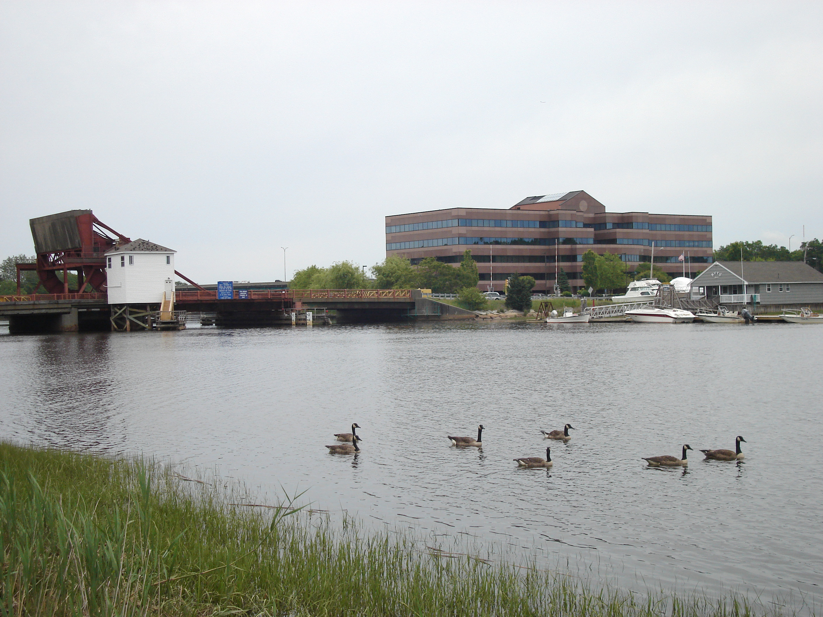 Looking east toward the Granite Avenue Bridge from the Dorchester, Massachusetts shore of the Neponset River. The Neponset Valley Yacht Club marina and a State Street Corporation-leased office building are visible on the Milton side of the river.